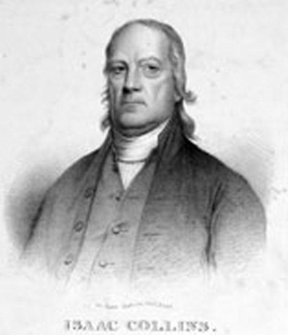 Engraving of portrait by John Wesley Jarvis, 1806; Isaac Collins